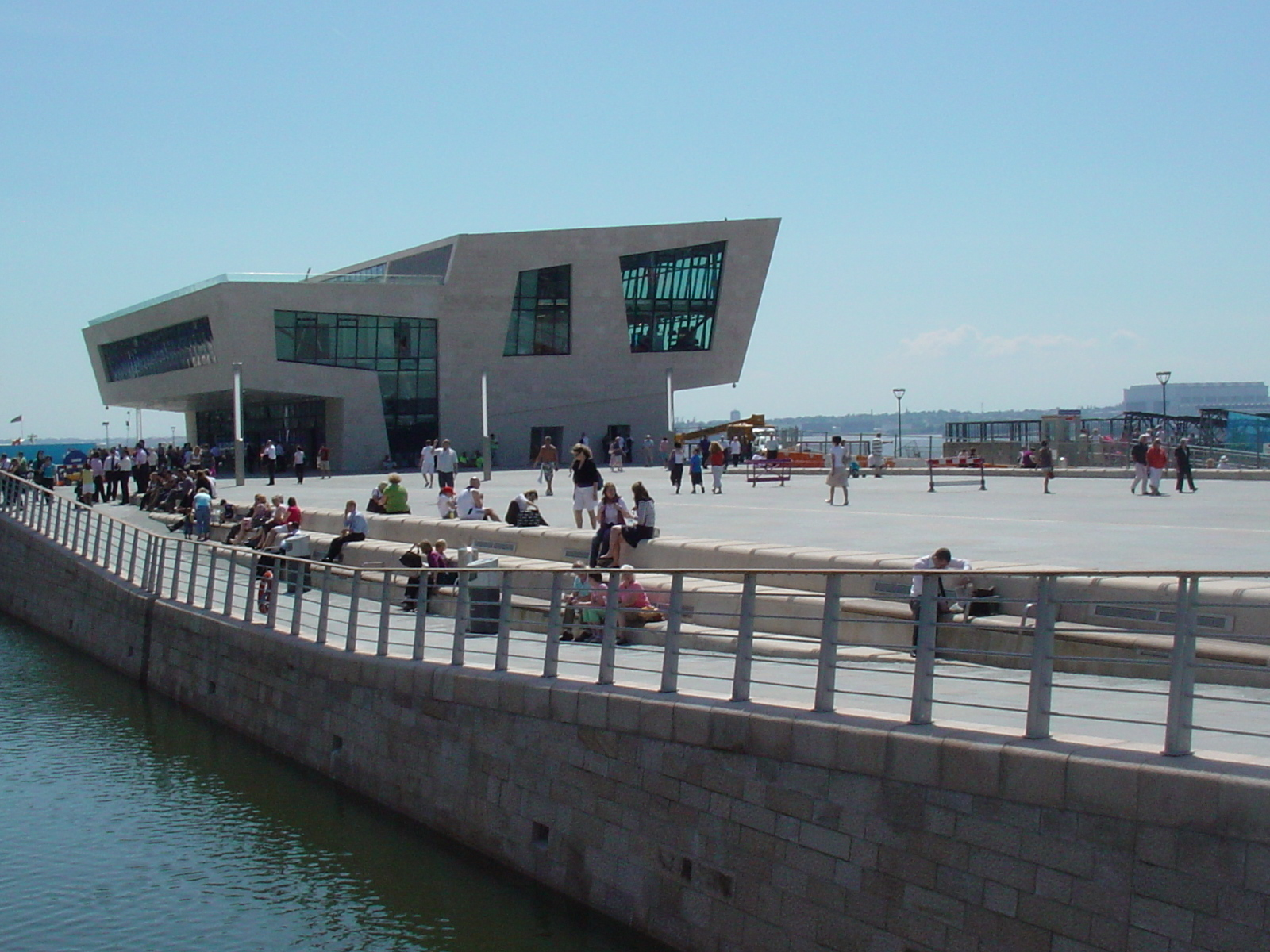 Mersey Ferry terminal building, Liverpool